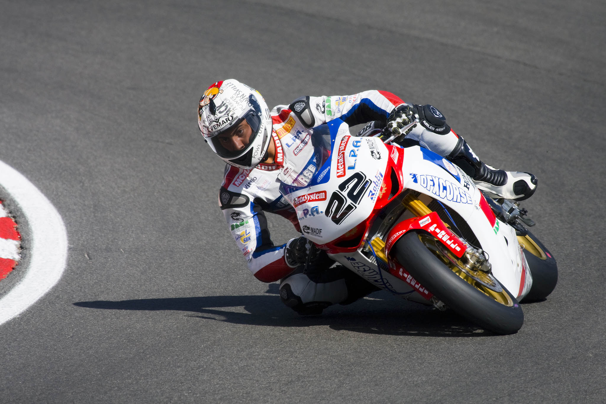 2008 Brands Hatch Superbike World Championship round – #22 Luca Morelli – Honda CBR1000RR – D.F. Racing